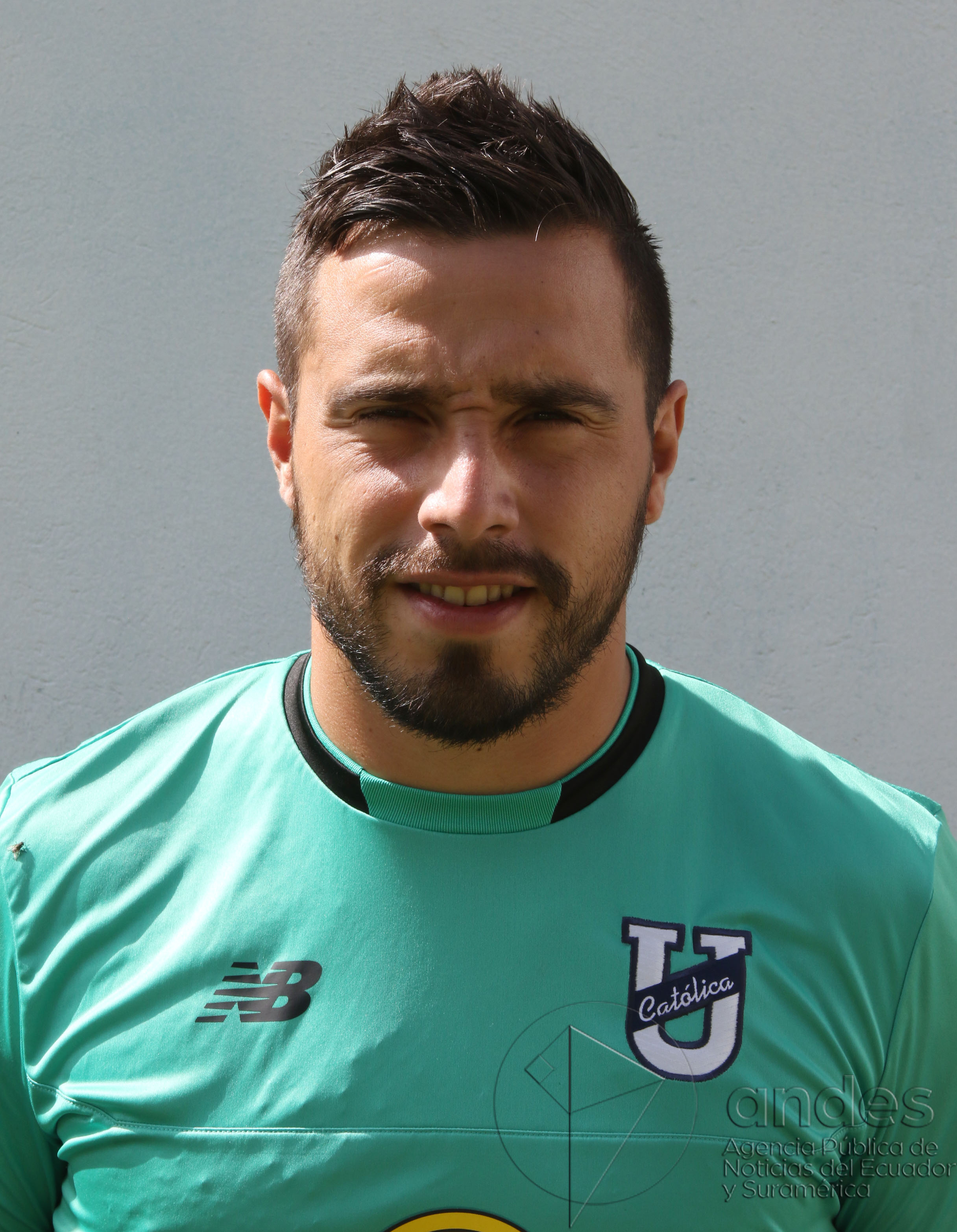 Hernán Galíndez